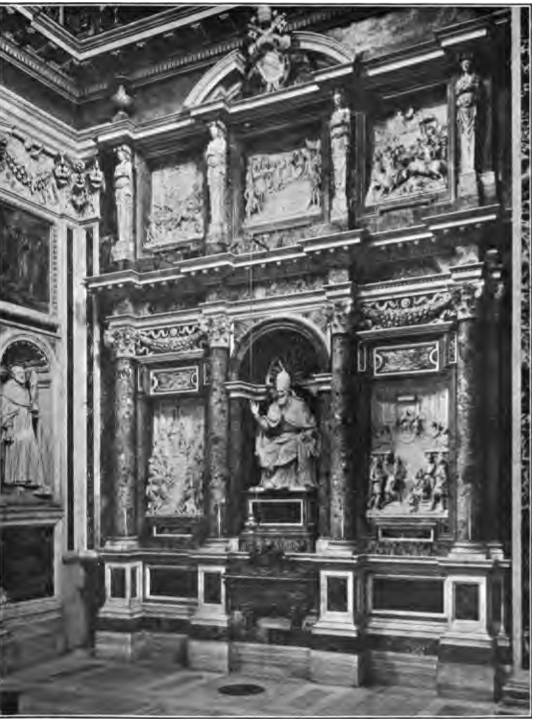 Ferdinand Gregorovius: The Tombs of the Popes (1903)